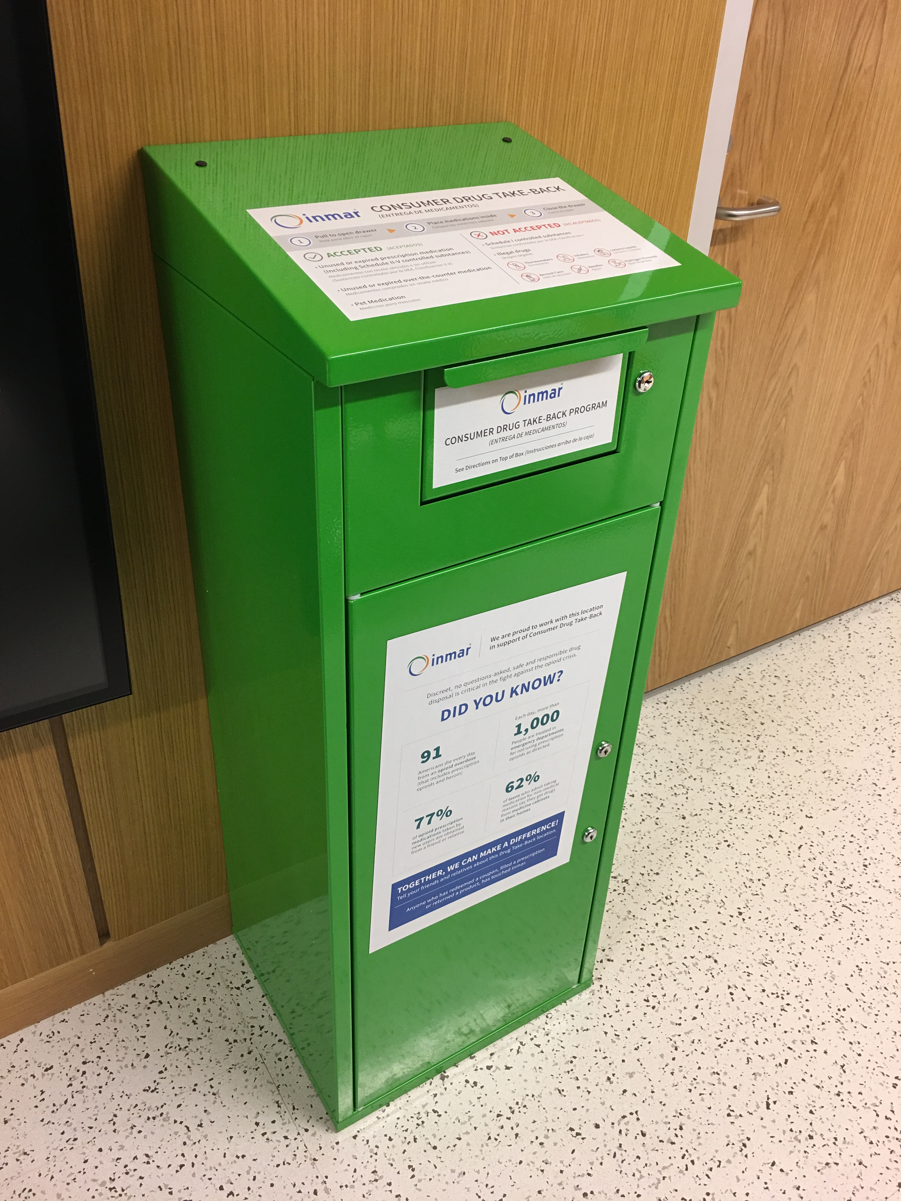 This is a drug disposal receptacle in the lobby of a hospital. It is a product which commercial company Inmar sells to health care providers who wish to present a Consumer Drug Take-Back Program.